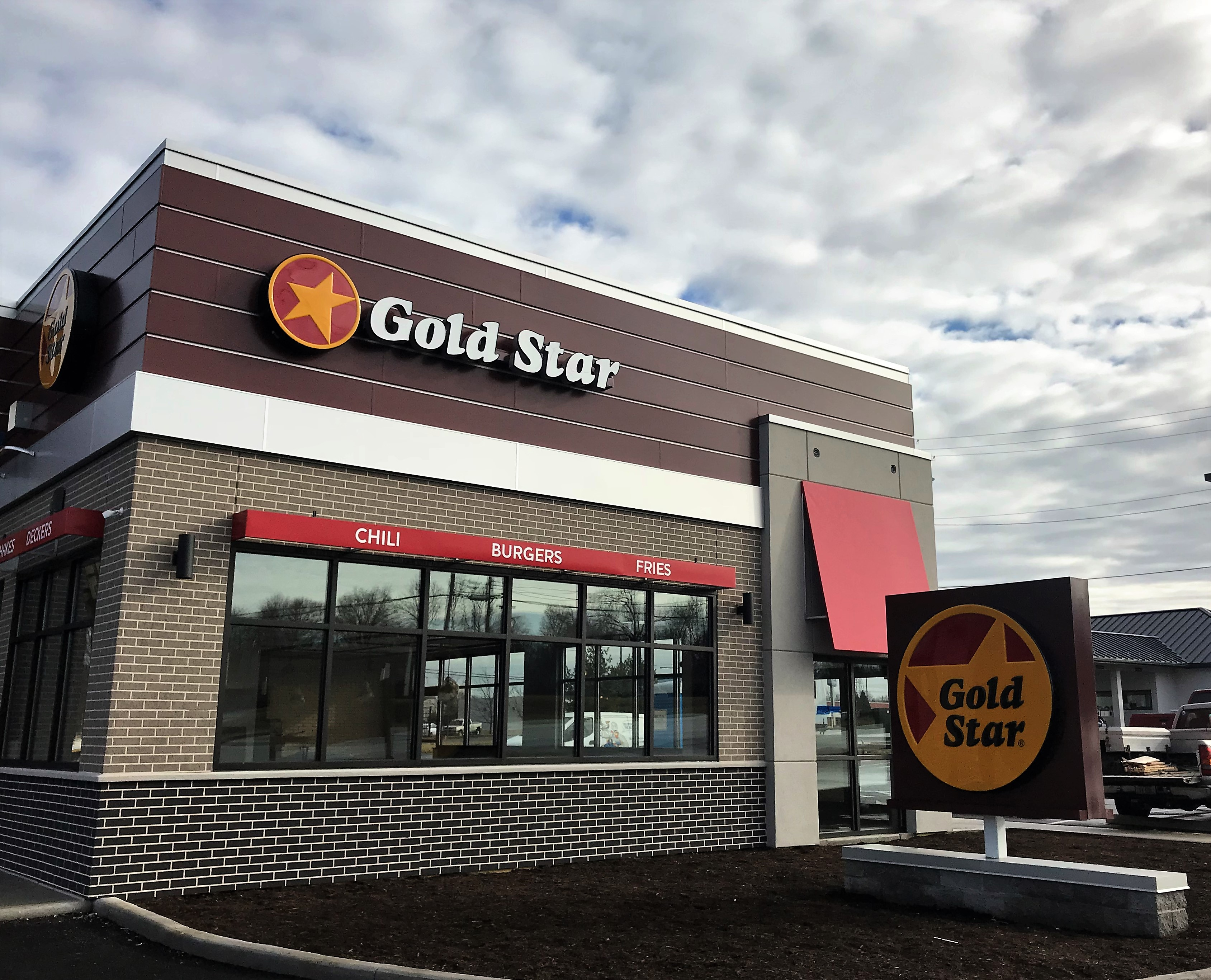 The exterior of a redesigned Gold Star Chili restaurant in Withamsville, OH.